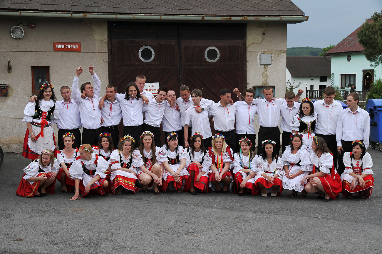 Křivoklátsko - Máje v Kublově